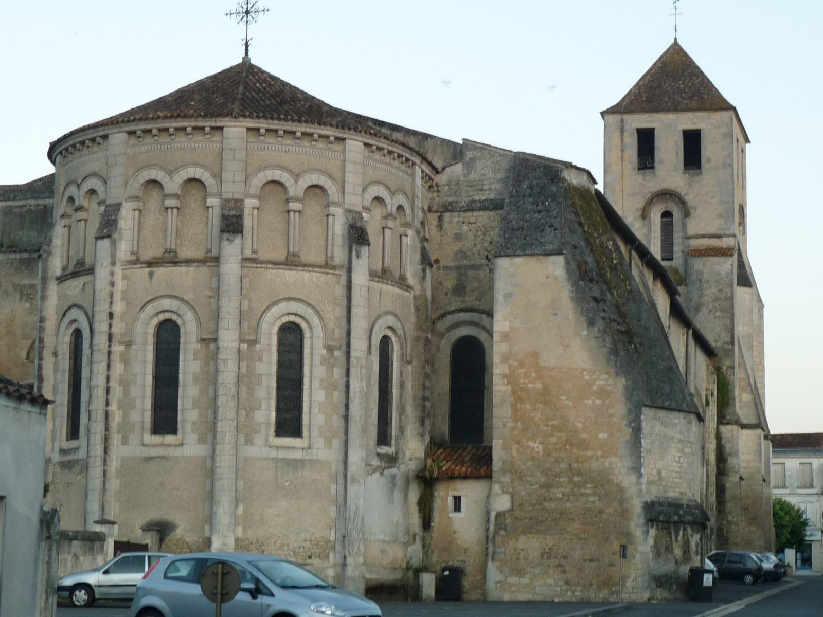 St-Mathias church at Barbezieux, Charente, SW France